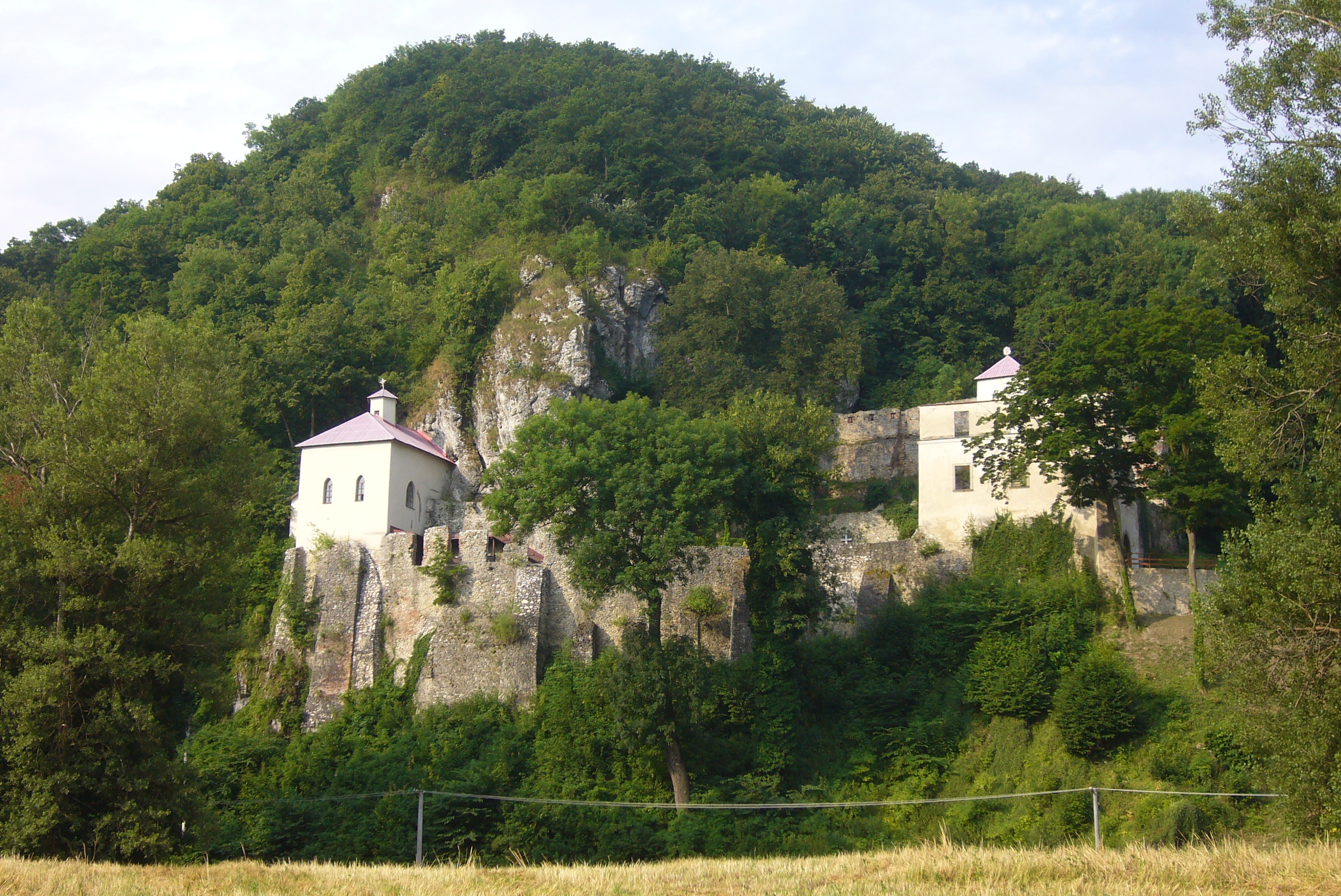 Ruin of abbey Velká Skalka (Skalka u Trenčína, Slovakia)